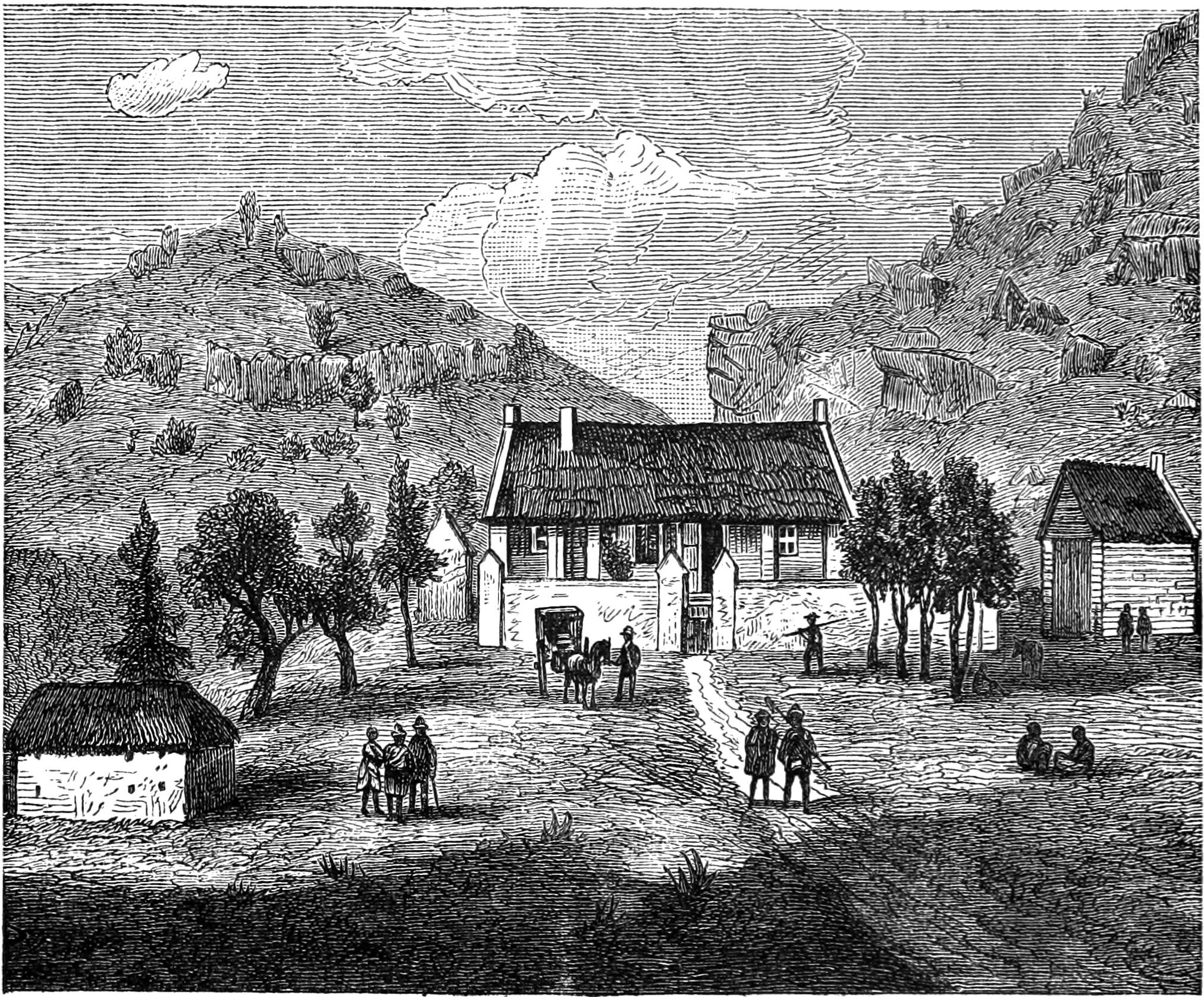 Mission house in Molopolole, from the book Seven Years in South Africa, volume 2, page 424